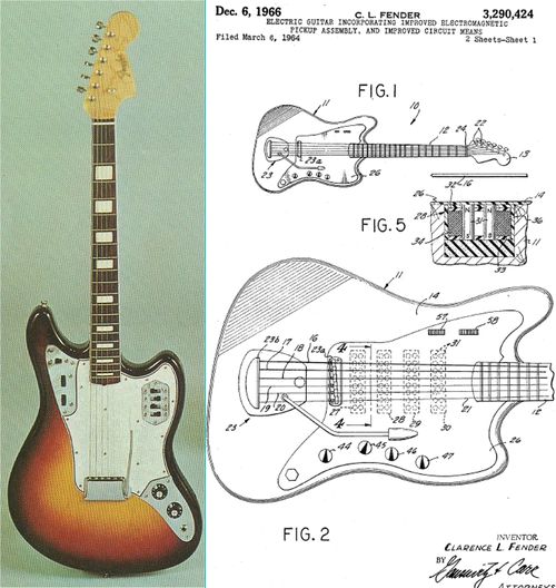 blueprint